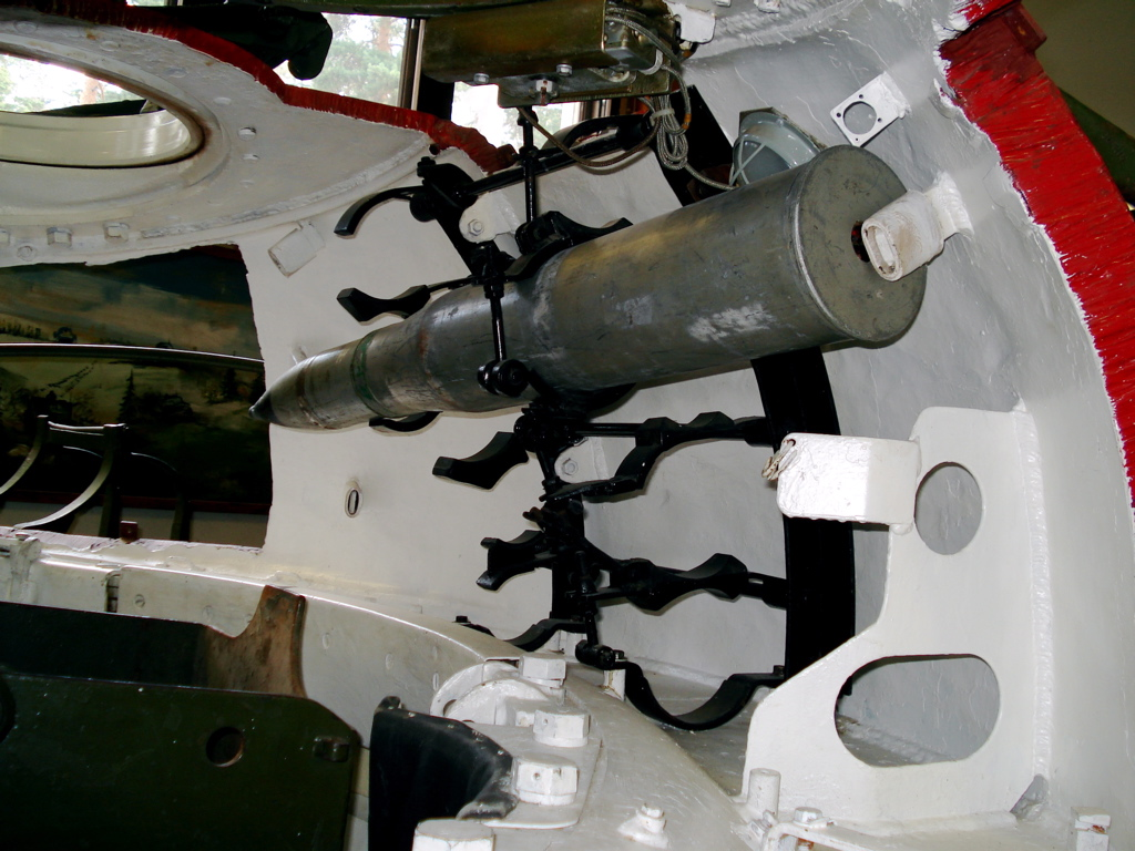 Russian T-54 tank, used by Finland. This model was cut open in for training purposes. Various systems of the tank have been illustrated with different colors. Finnish Tank Museum (Panssarimuseo) in Parola.